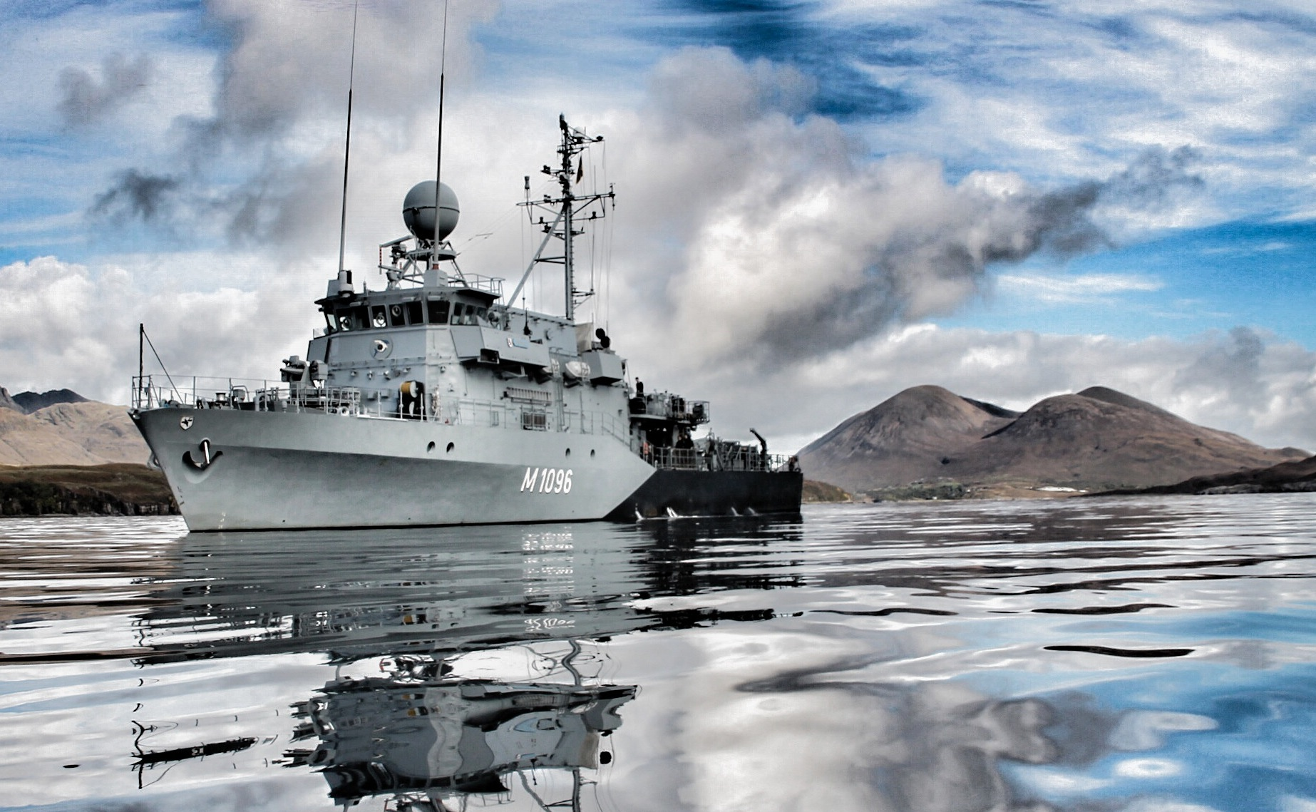 German Minehunter Passau in The Minch during NATO exercise JOINT WARRIOR 2012 (british territorial waters).